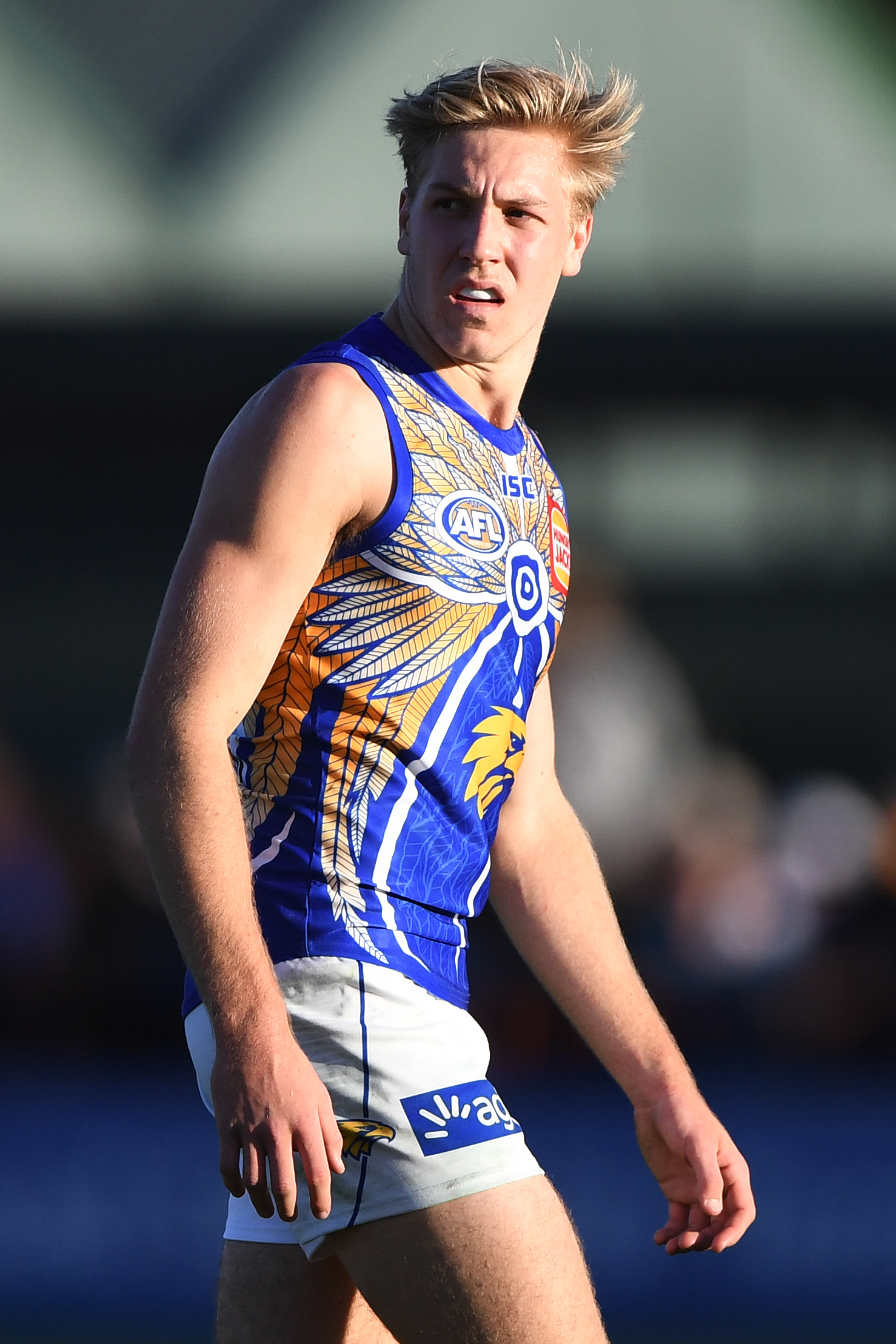 Oscar Allen of West Coast during the 2019 AFL round 18 match between Melbourne and West Coast at Traeger Park on Sunday, 21 July 2019 in Alice Springs, Northern Territory.